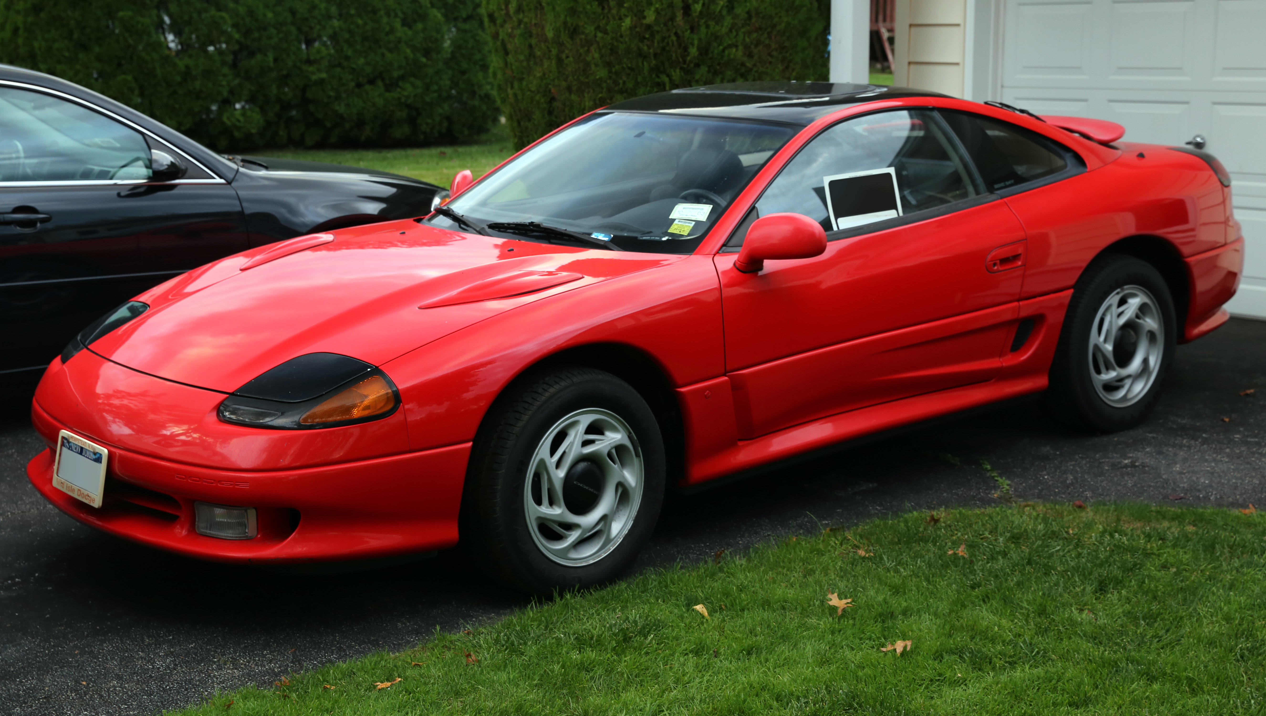 A 1991 Dodge Stealth R/T. $24,632 new, currently for sale at $7,500. Rare to see one of these not driven into the ground by an idiot nineteen-year-old, I hope it finds a good home.